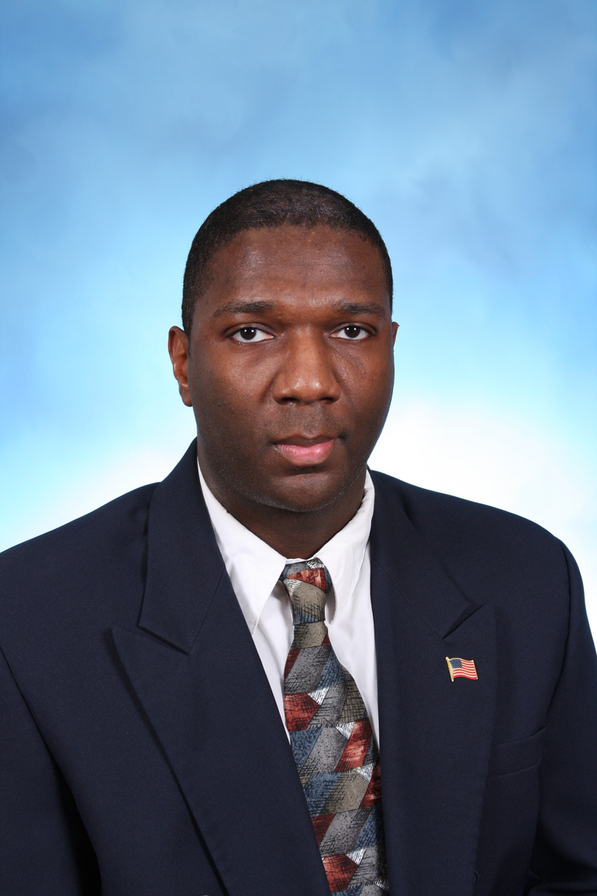 Alvin Greene, 2010 Democrat U.S. Senate Nominee in South Carolina